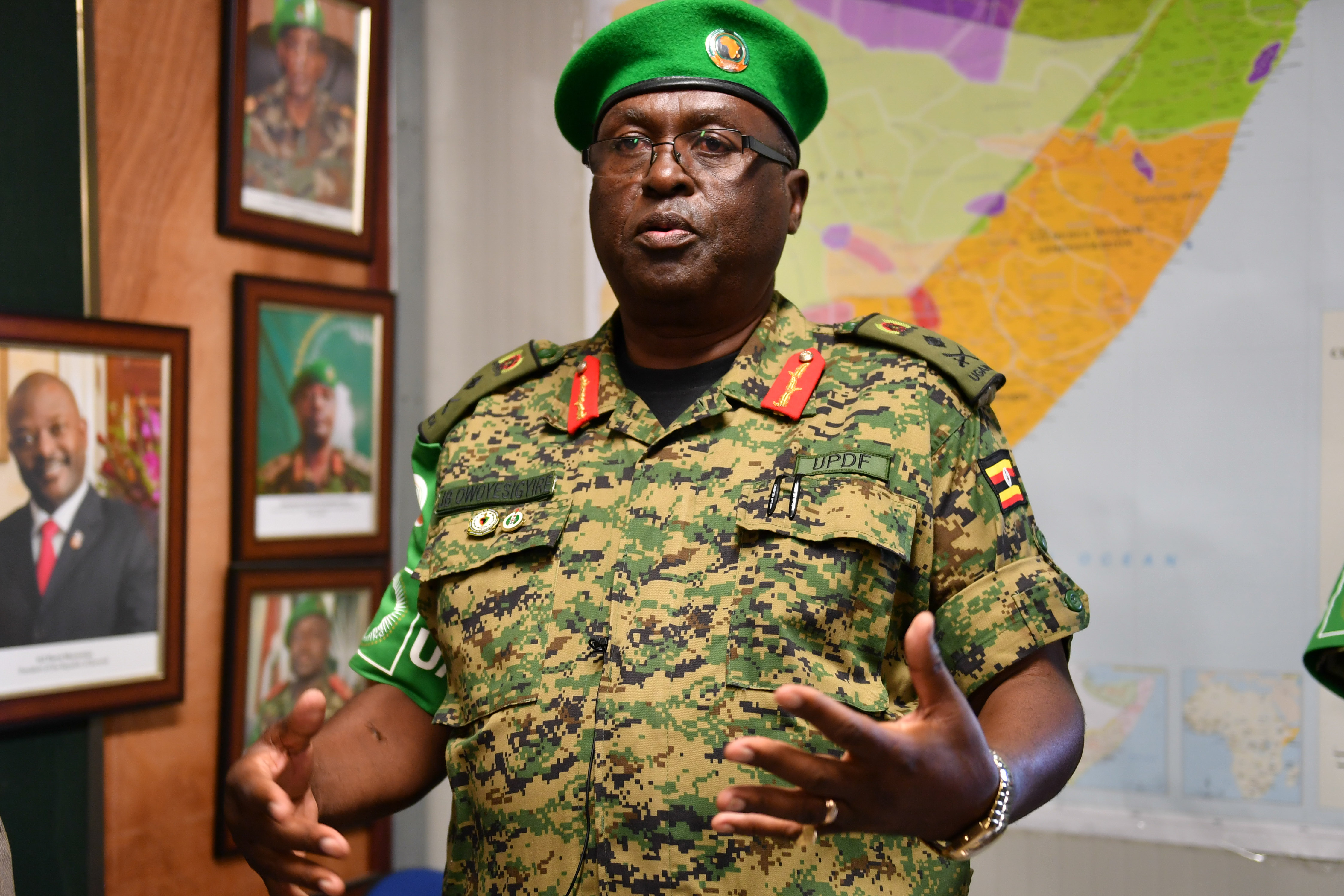 Lt. Gen. Jim Beesigye Owoyesigire, the Incoming AMISOM Force Commander, speaks during a command handover/takeover ceremony in Mogadishu, Somalia, on 31 January 2018. AMISOM Photo / Omar Abdisalan